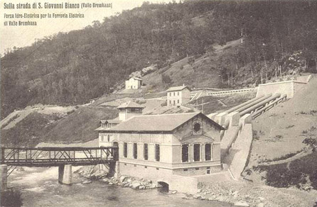 San Giovanni Bianco, railway power station